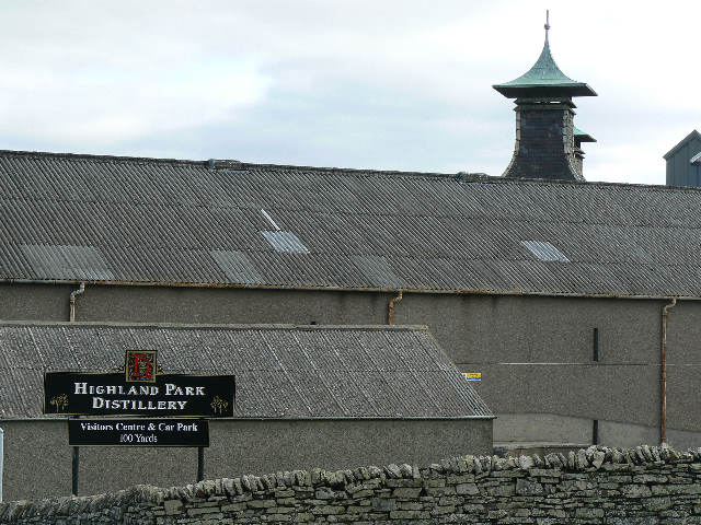 Chimneys over malting room, Highland Park Distillery, St Ola, Mainland, Orkney Highland Park is one of only a few remaining distilleries that malts its own barley. The process involves soaking the grain and then when germination starts, spreading it on the floor of the malting room while peat furnaces beneath keep the temperature right and flavour the grains. The peat smoke exits through these chimneys.